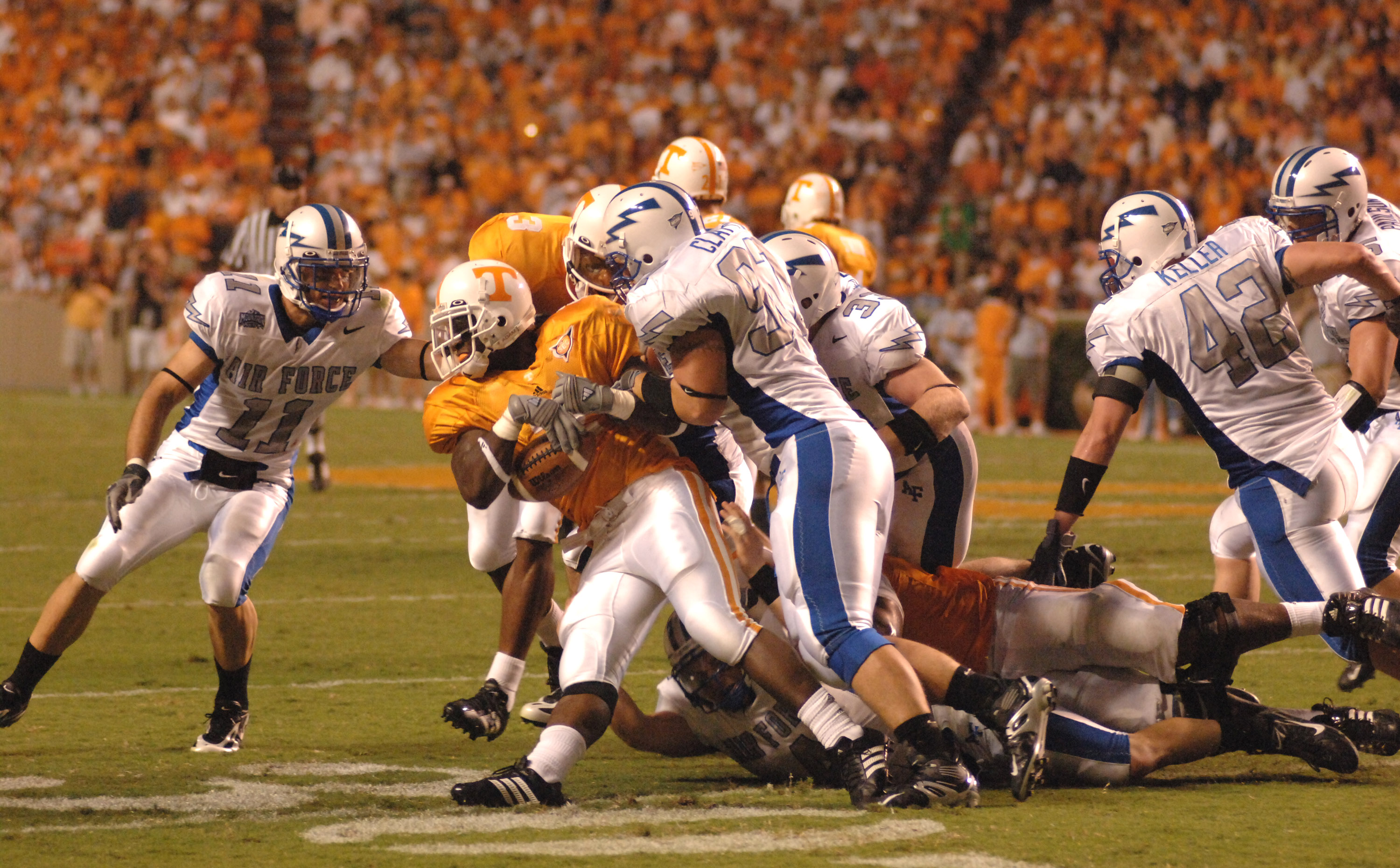 Air Force Academy Falcons free safety Bobby Giannini (#11) prepares to finish off Tennessee tailback Montario Hardesty, while Falcons defensive end Josh Clayton (#97) loosens Hardesty's grip on the football. The freshman tailback ground out 63 of Tennessee's 79 yards on the ground and added one touchdown to the Volunteers' 31-30 win over Air Force